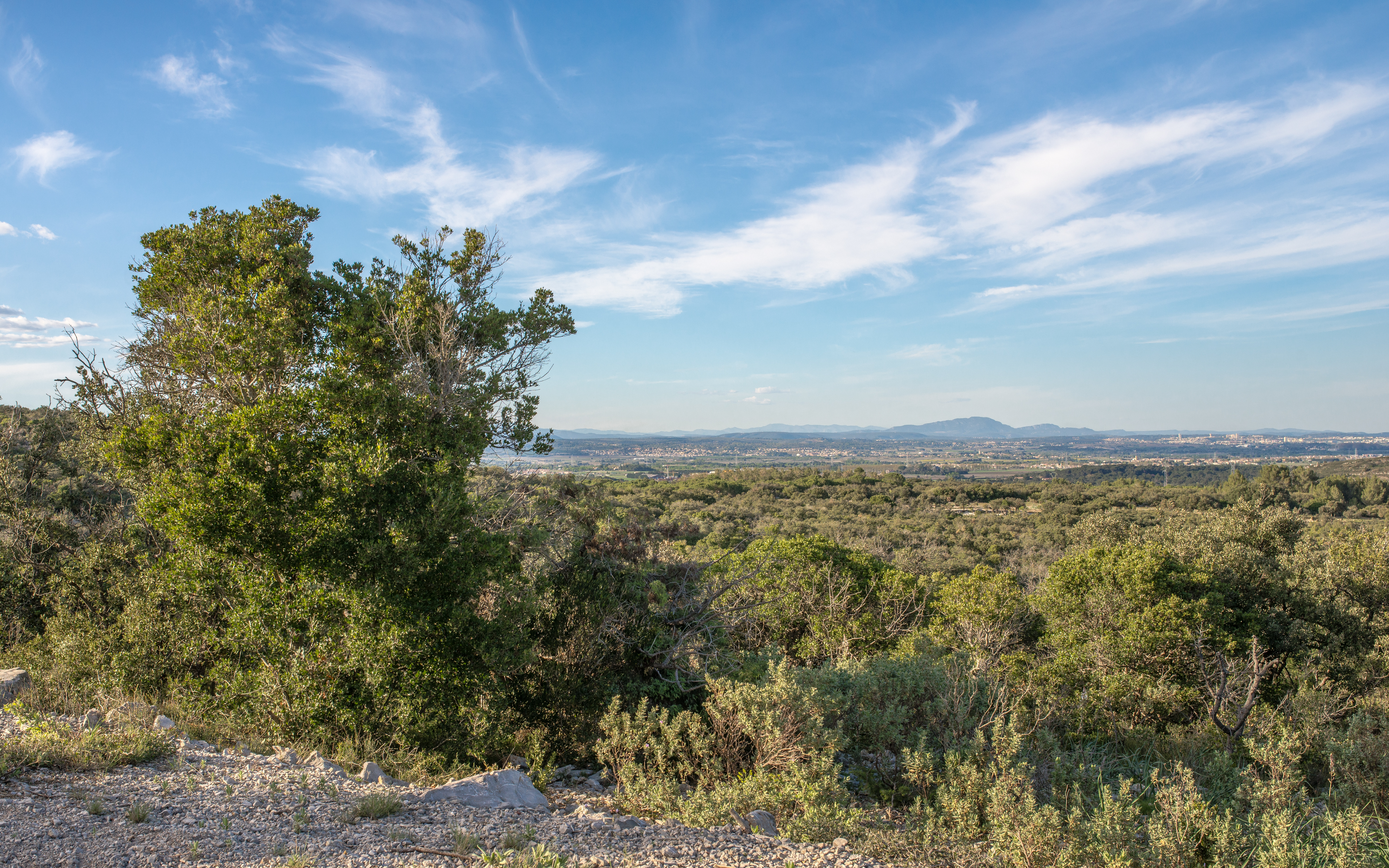 The plain of Fabrègues is a 20 km corridor which connects Montpellier in the Northeast to the Étang de Thau in the Southwest. View from the South in the La Gardiole Mountain in Fabrègues, Hérault, France.